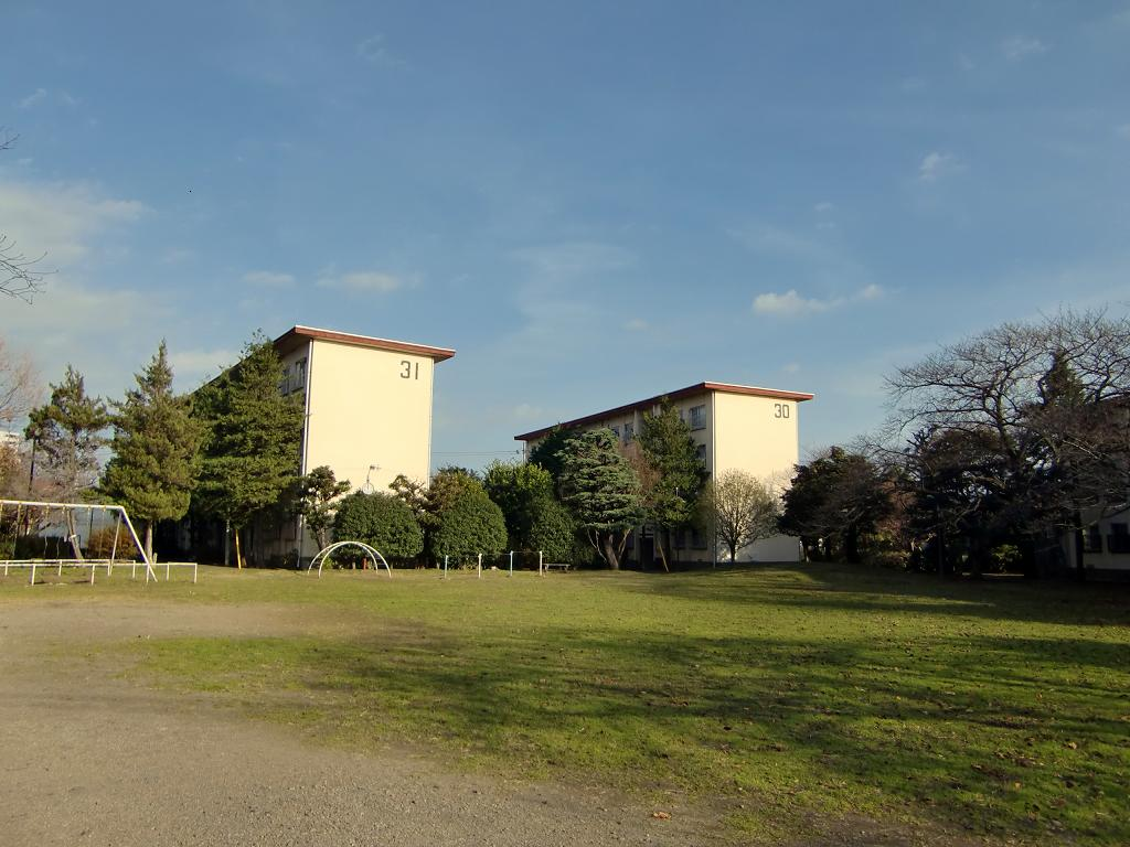 The play ground in former Asagaya residence in Tokyo.